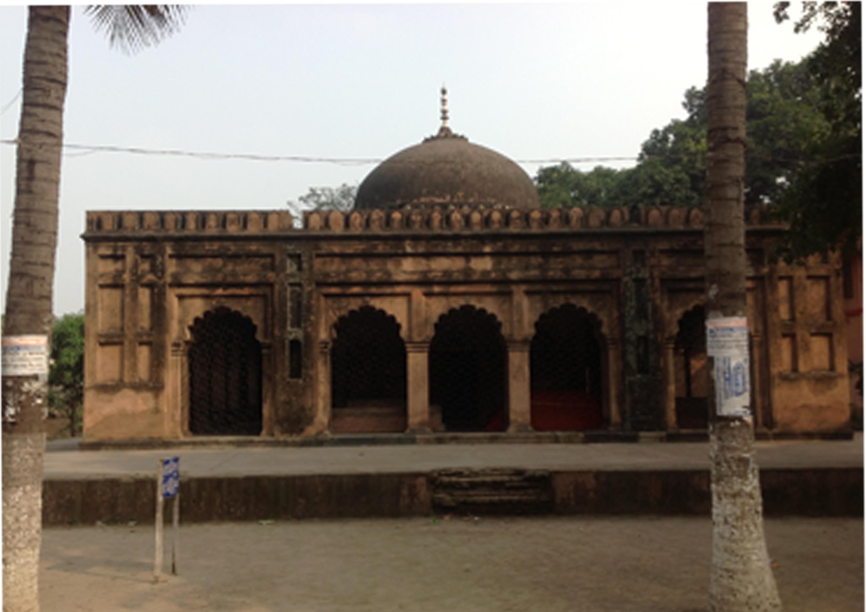 shrine of Bibi Maryam Other information none